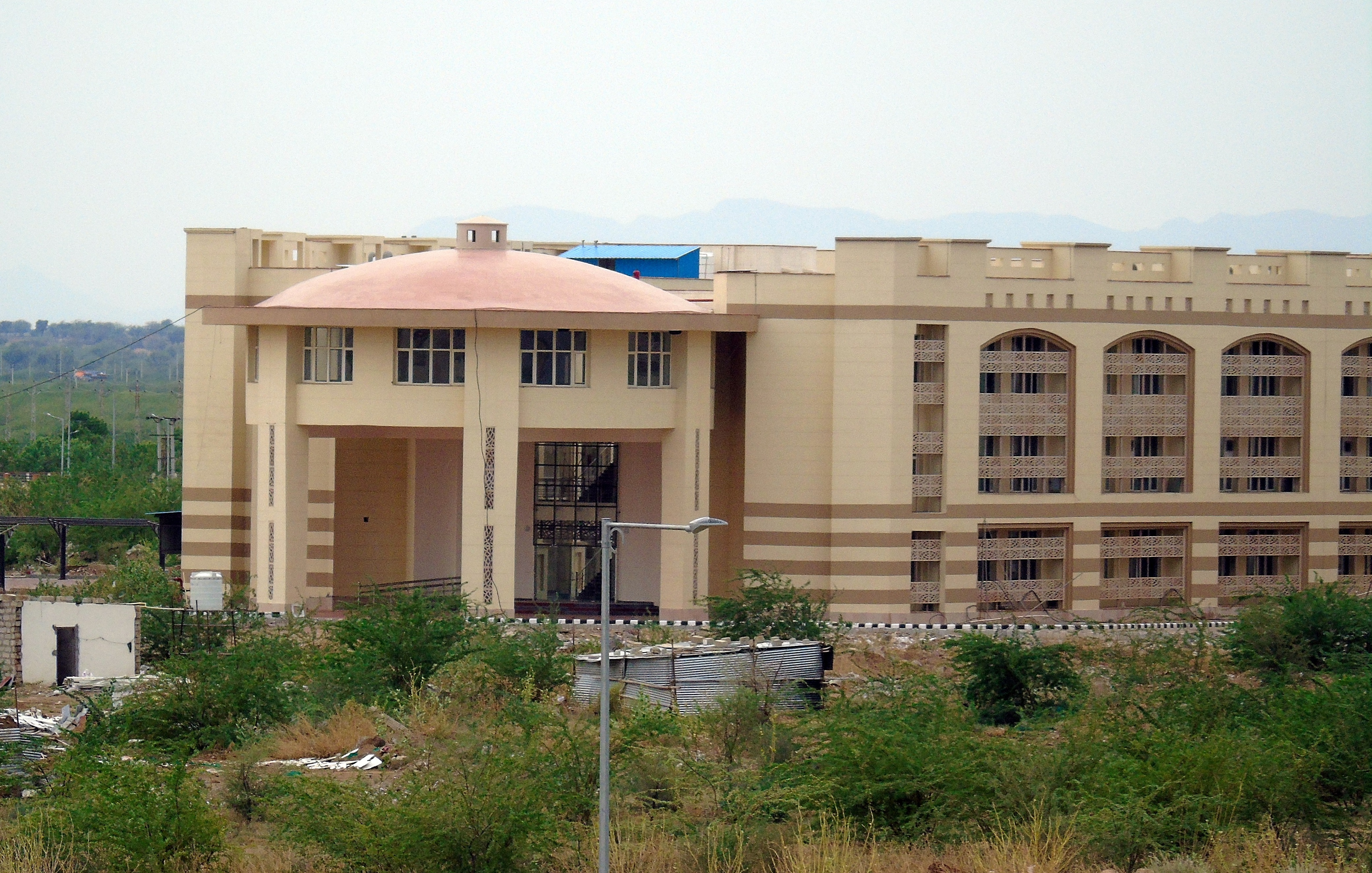 A permanent building nearly ready